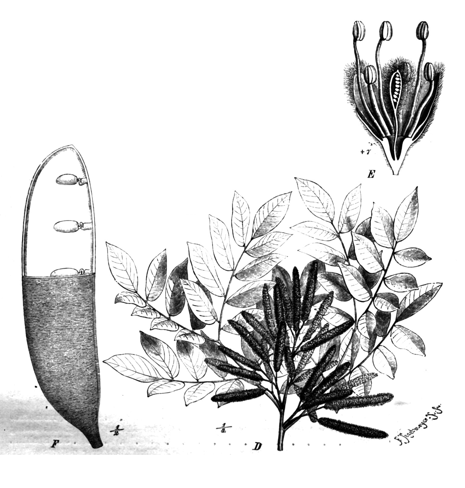 Illustration from book